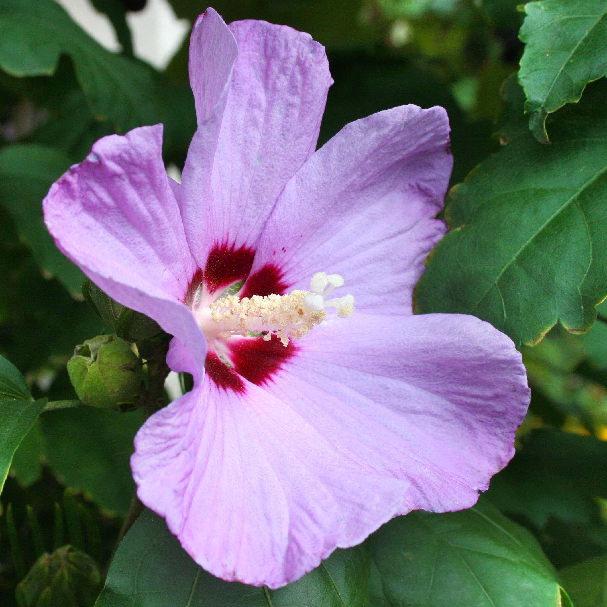 Malvales